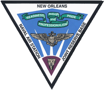 The logo for the New Orleans Naval Air Station base.